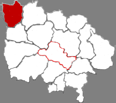 Location of Yonghe county in Linfen City, China